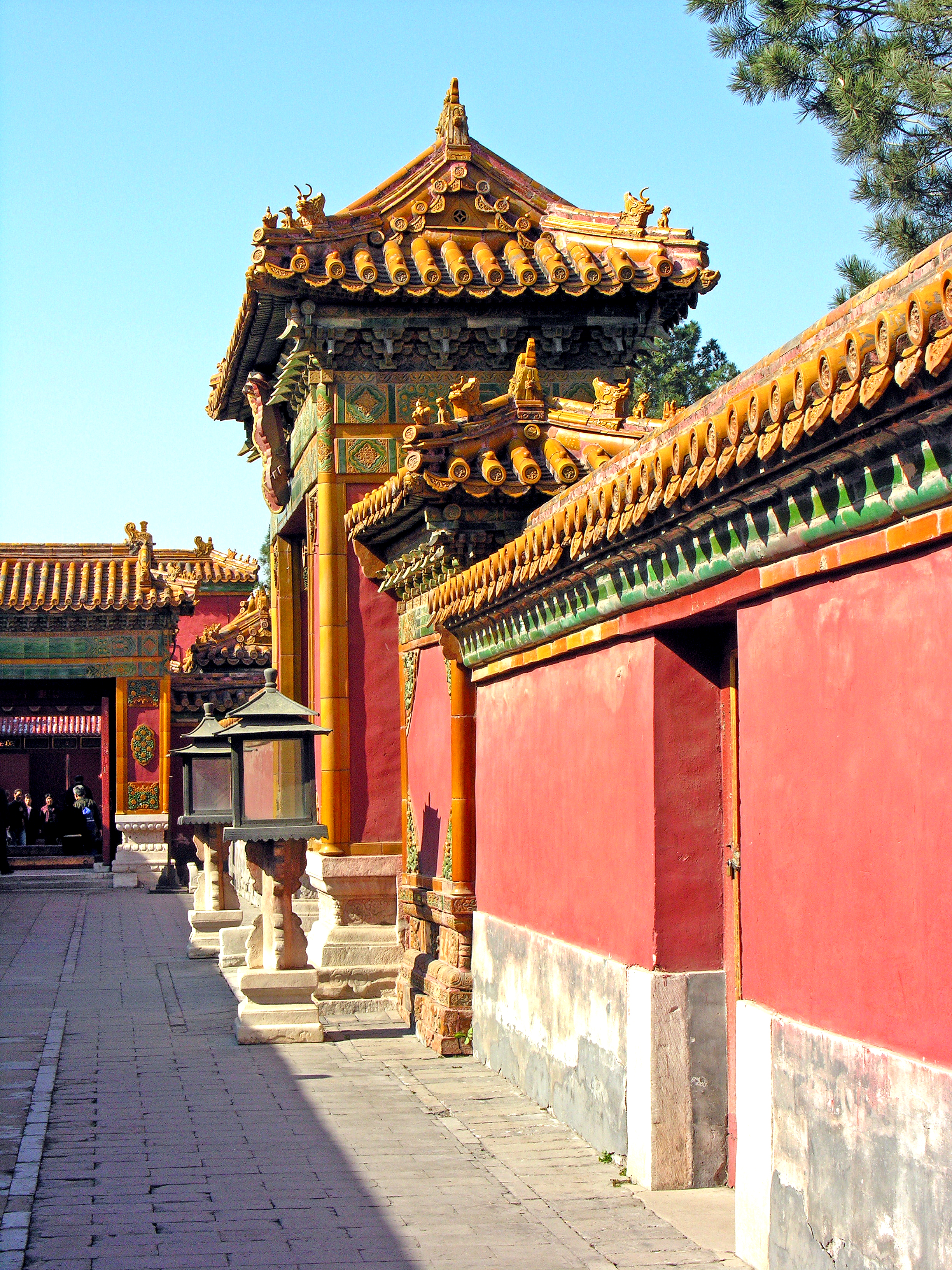 Central route north to Palace of Heavenly Purity.